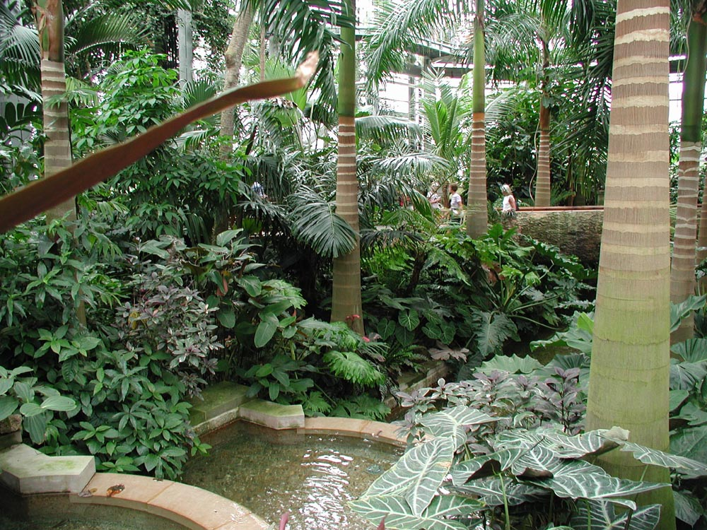 from Image:US botanic garden 2.jpg 02:59, 25 June 2004 UTC. Taken by Raul654 on June 23, 2004 UTC. Uploaded by Alma mater 9:57, April 2006 UTC. Picture from inside the United States Botanic Garden.